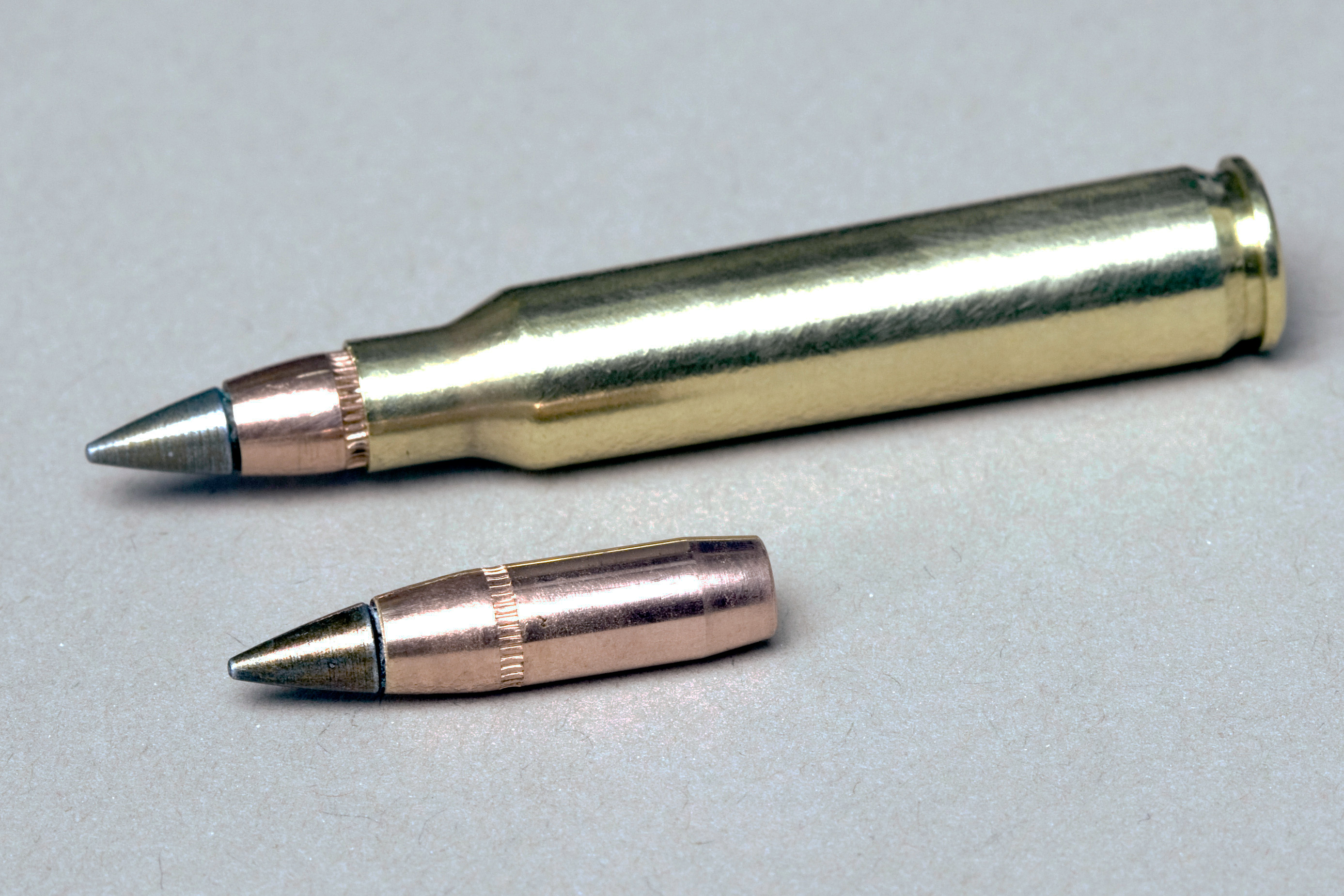 (original description) The 5.56 M855A1 Enhanced Performance Round, shown here, is sometimes called a "green round" due to its copper-only core. It has proven more effective against hard targets than the 5.56 M855 round it is designed to replace. The new round is equal to the M855 round against soft targets in effectiveness but is more consistent in its performance.